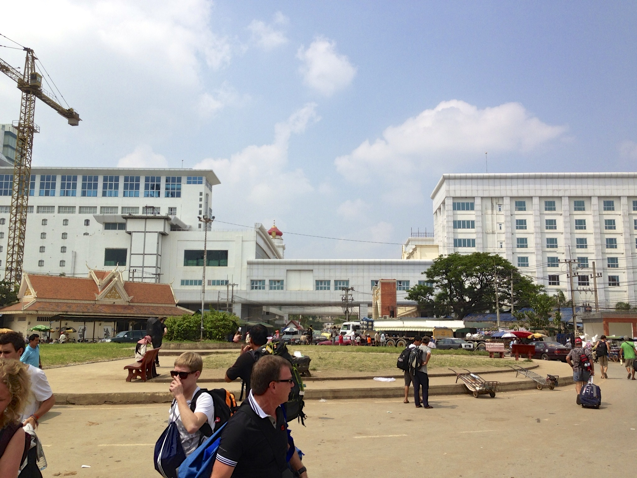 Crossing the Cambodian Border at Poipet